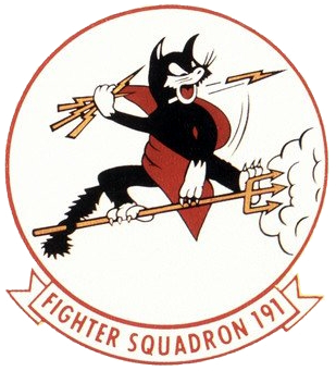 Patch of the U.S. Navy Fighter Squadron 191 (VF-191) "Satan's Kittens".